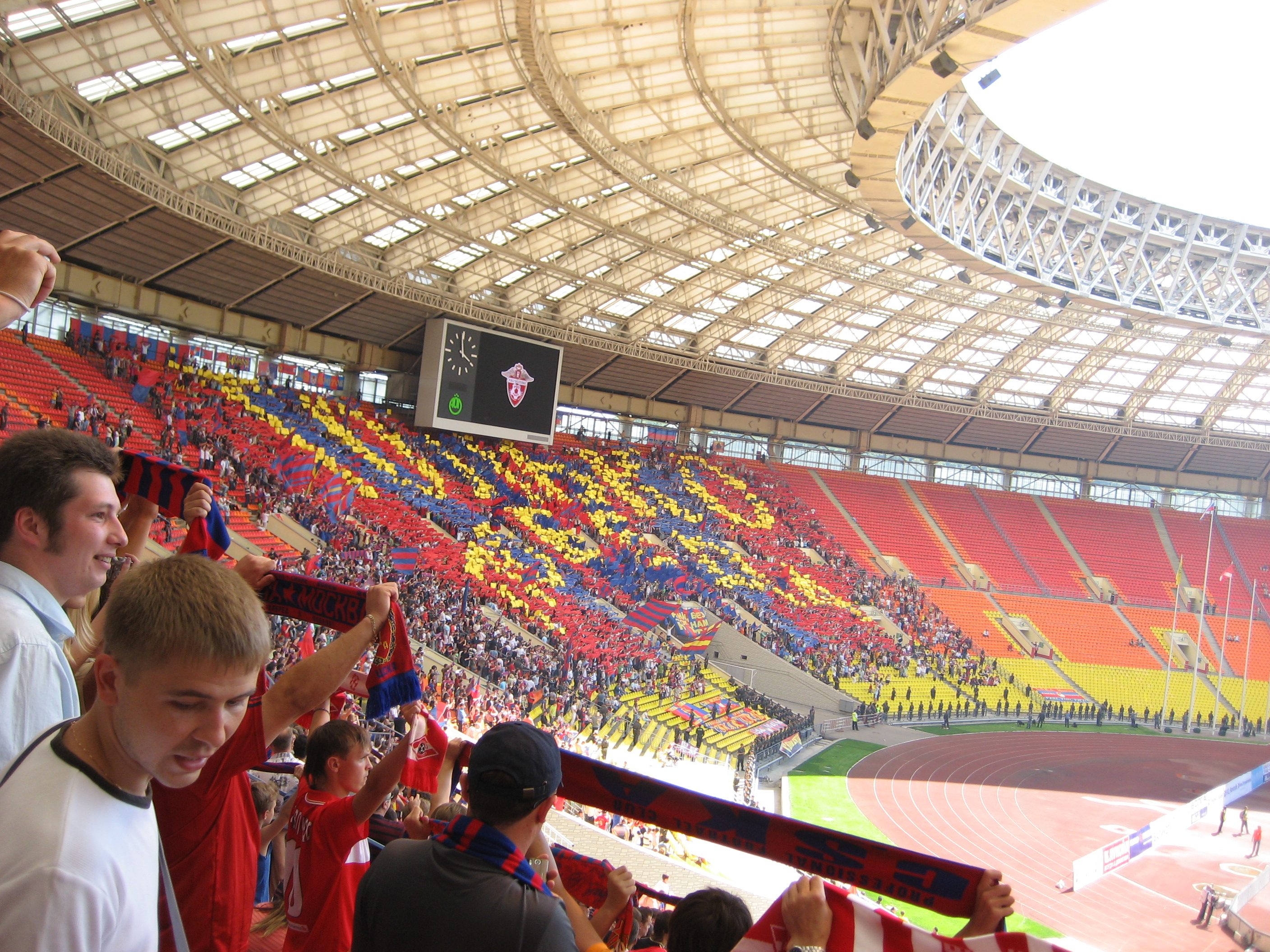 Russian football derby «Spartak» — «CSKA». Moscow. Fans of the second team: «Only win».